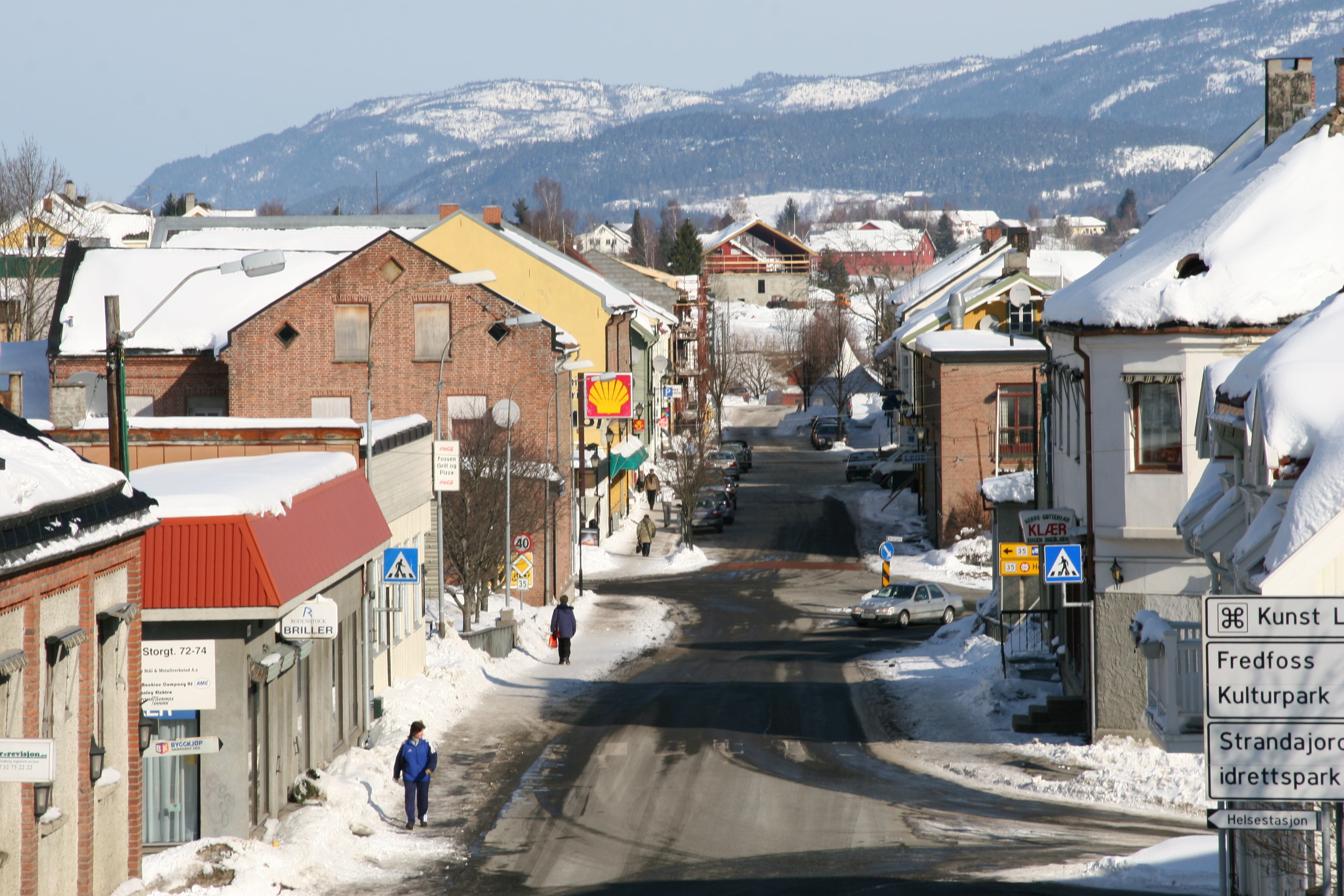 Storgata street in Vestfossen, Norway. View from Råenbakken. Date: 2006-03-11. Photographer: eao.